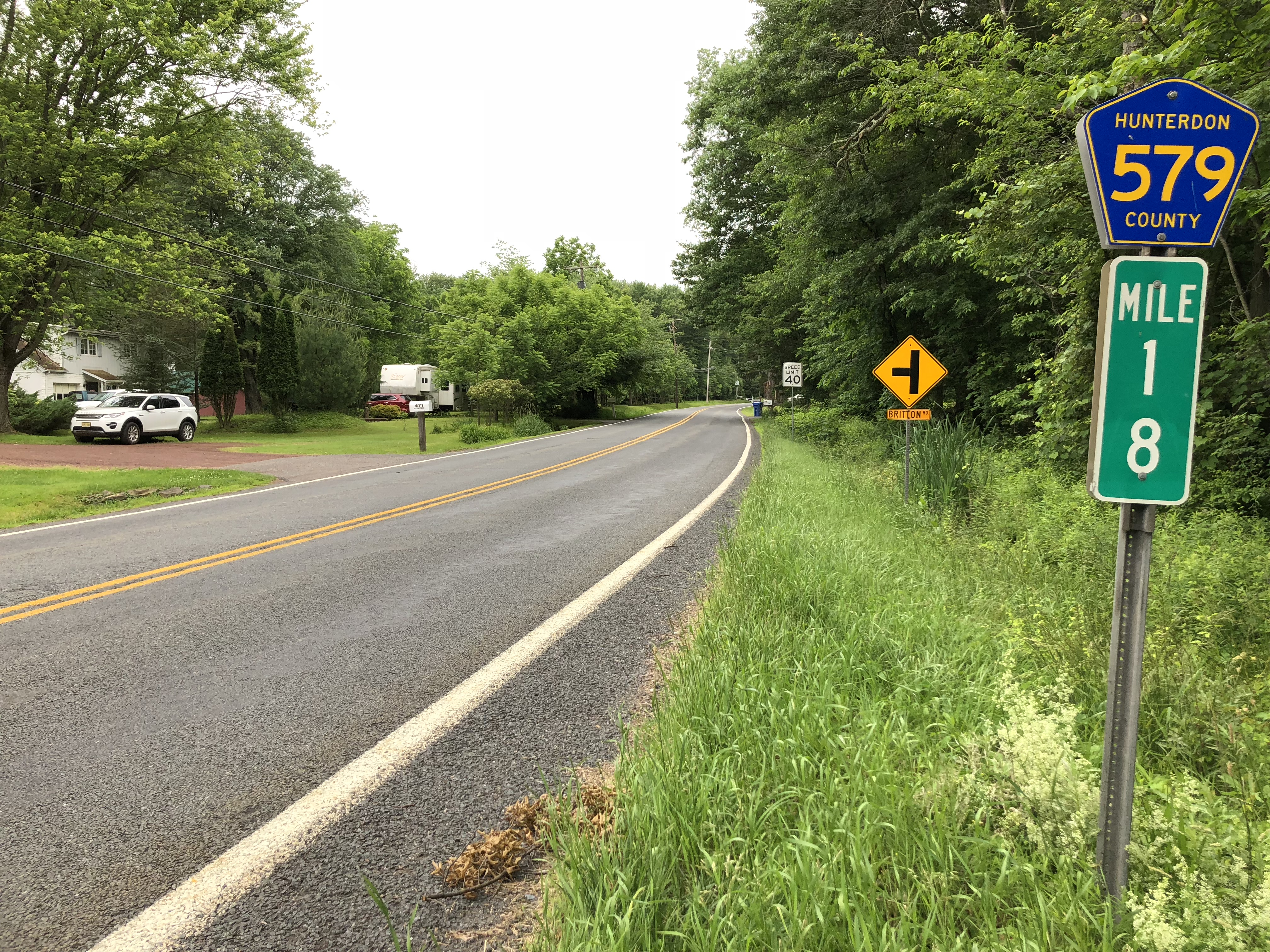 View north along Hunterdon County Route 579 (John Ringo Road) between Hampton Corner Road and Britton Road on the border of Delaware Township and Raritan Township in Hunterdon County, New Jersey